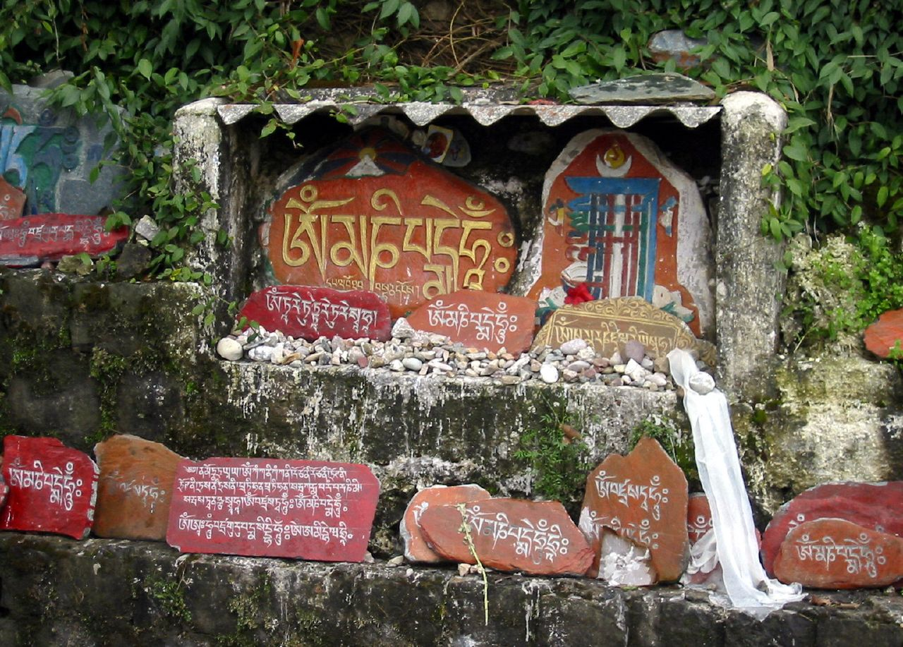 Prayers on stones outside the Tsuglagkhang Complex. (McLeod Ganj)